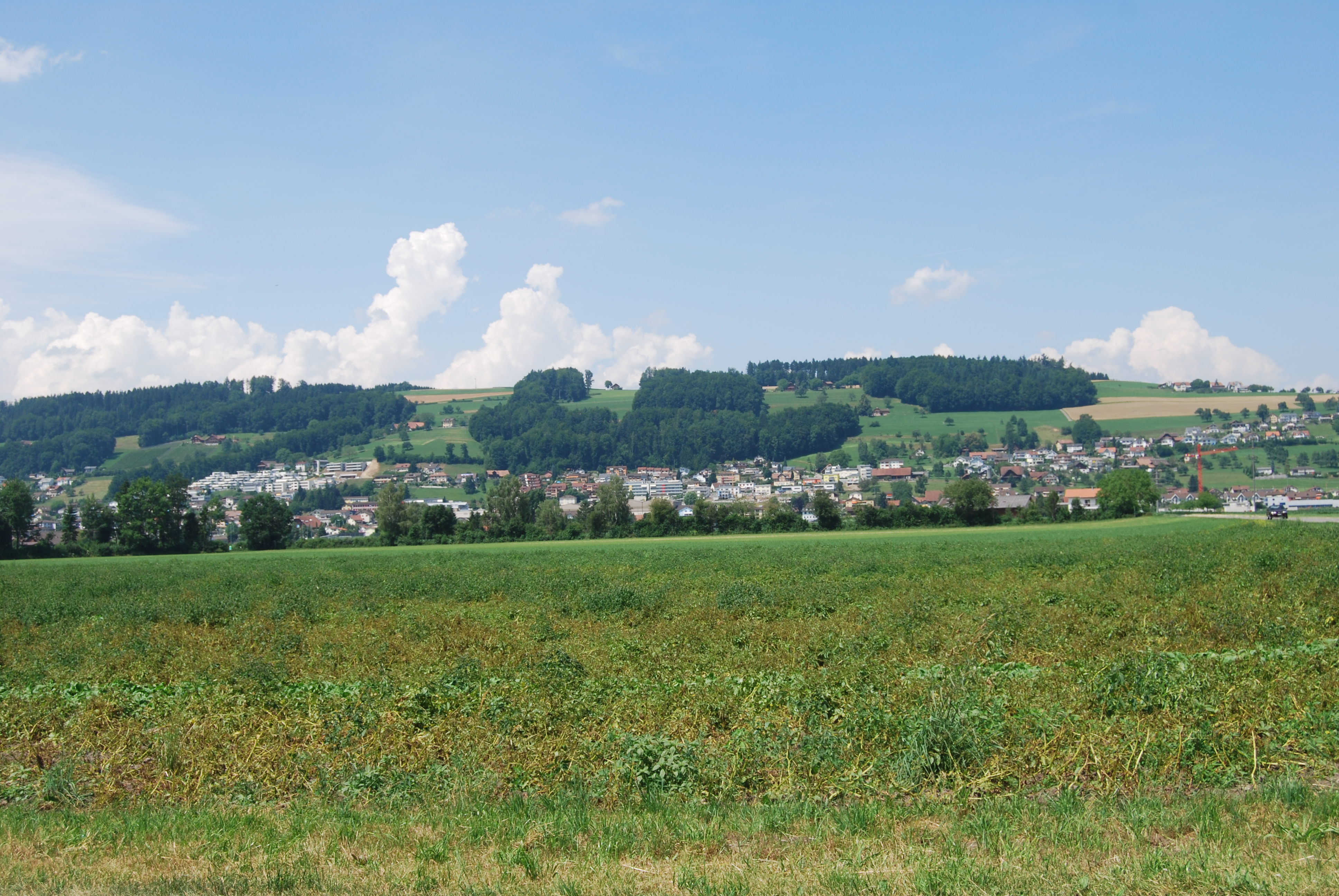 Wauwil, canton of Luzern, SwitzerlandEsperanto: Wauwil, Kantono Lucerno, Svislando